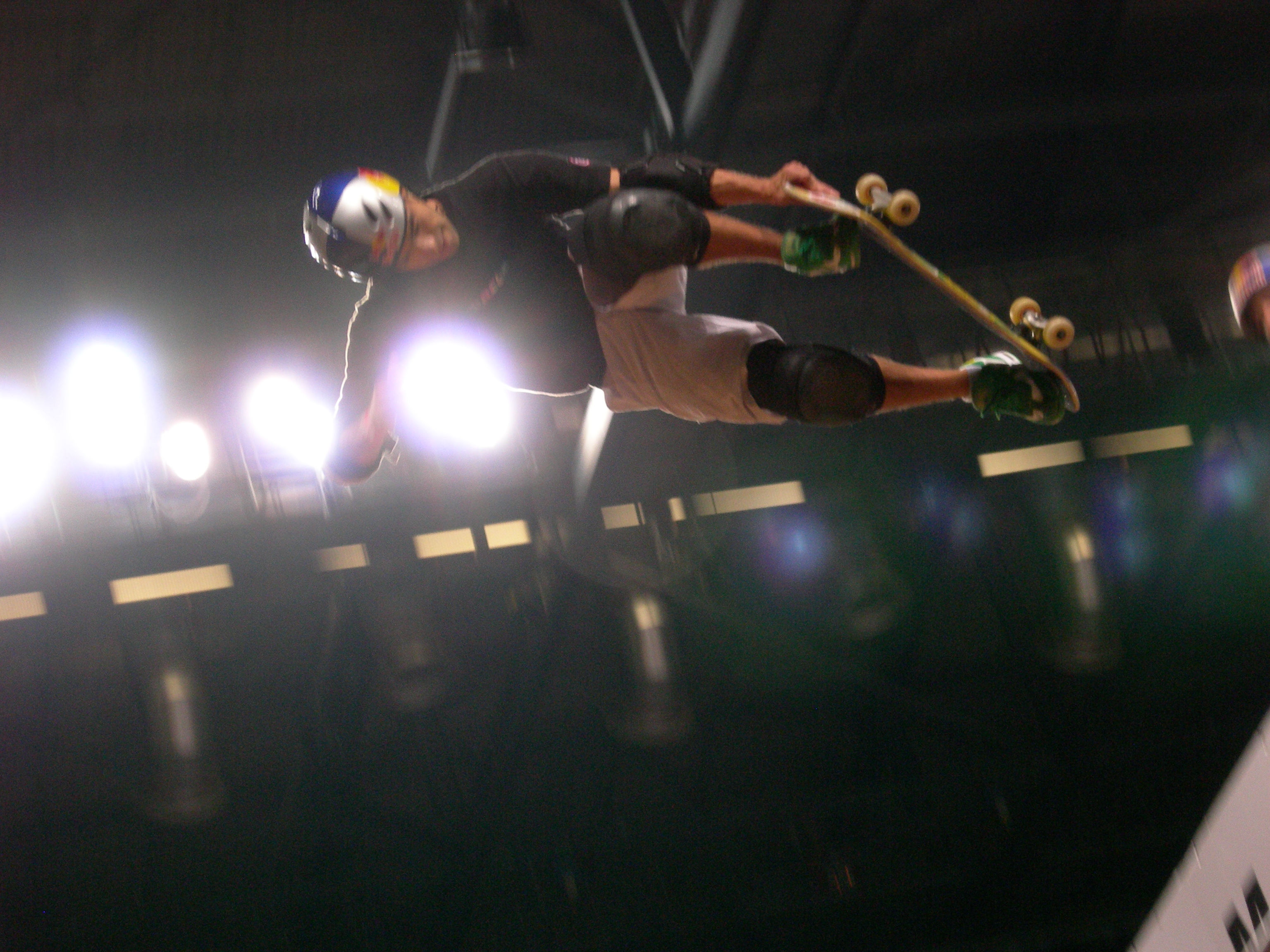 Sandro Dias skate vert finalist @ LG Action Sports Championships Manchester Evening News Arena